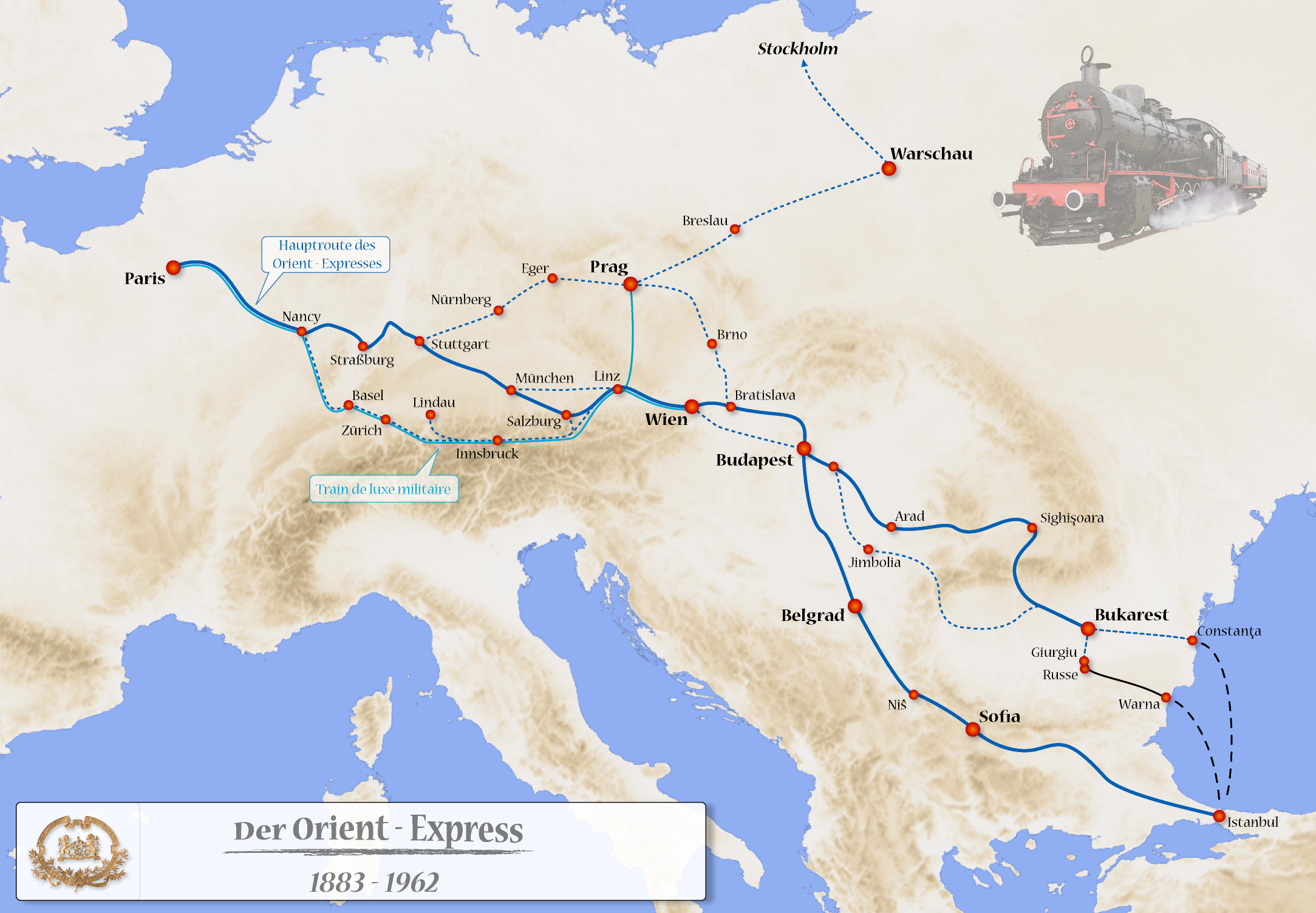 Route of the Orient Express